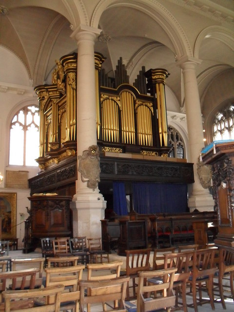 The organ at St Sepulchre, Holborn Viaduct